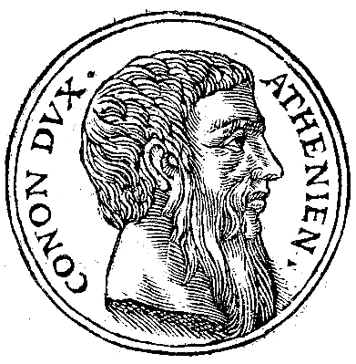 Conon was an Athenian general at the end of the Peloponnesian War, in charge during the decisive loss of the navy at the Battle of Aegospotami.